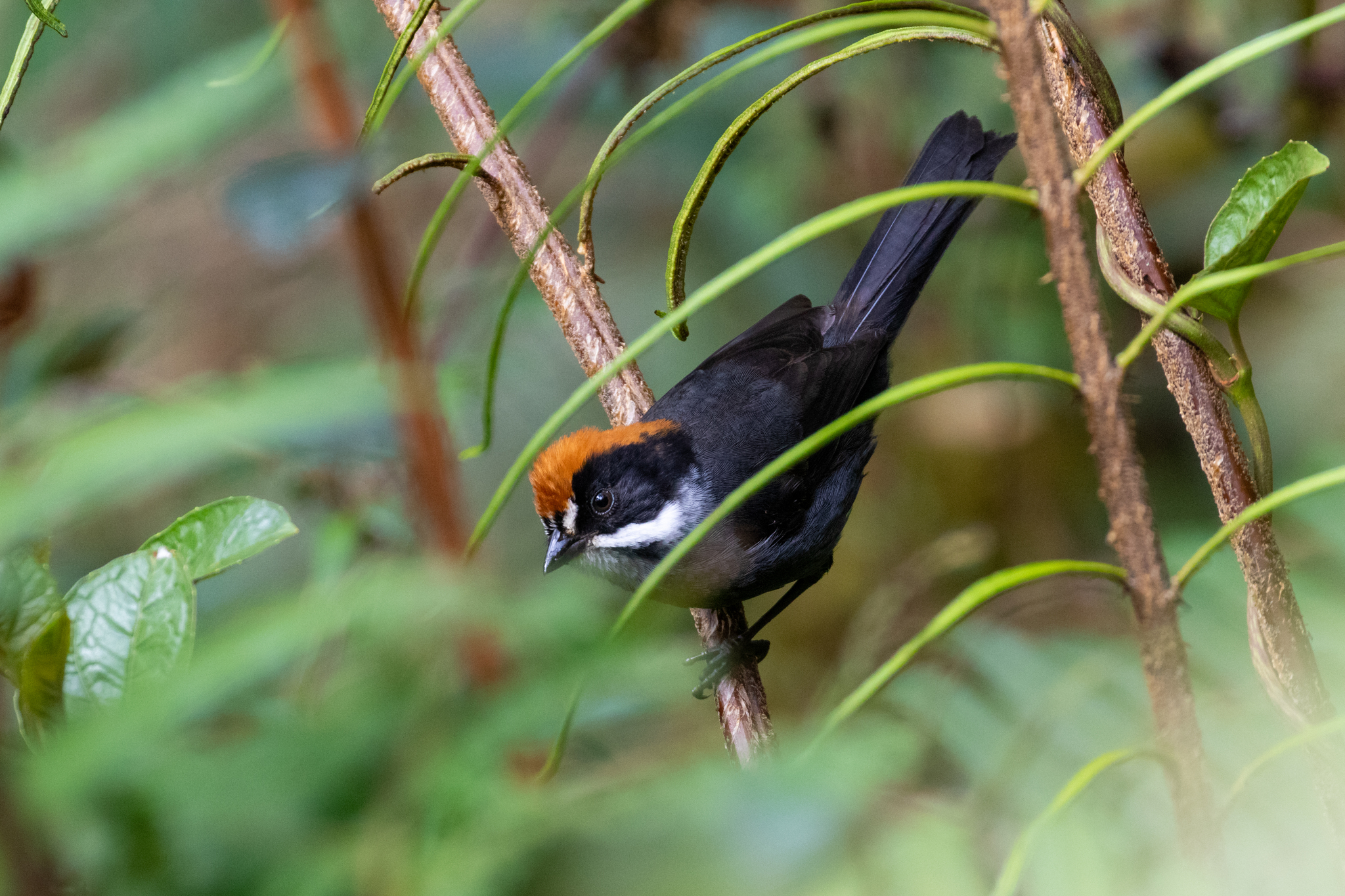 Slaty Brushfinch (Taczanowski's) (Atlapetes schistaceus taczanowskii)